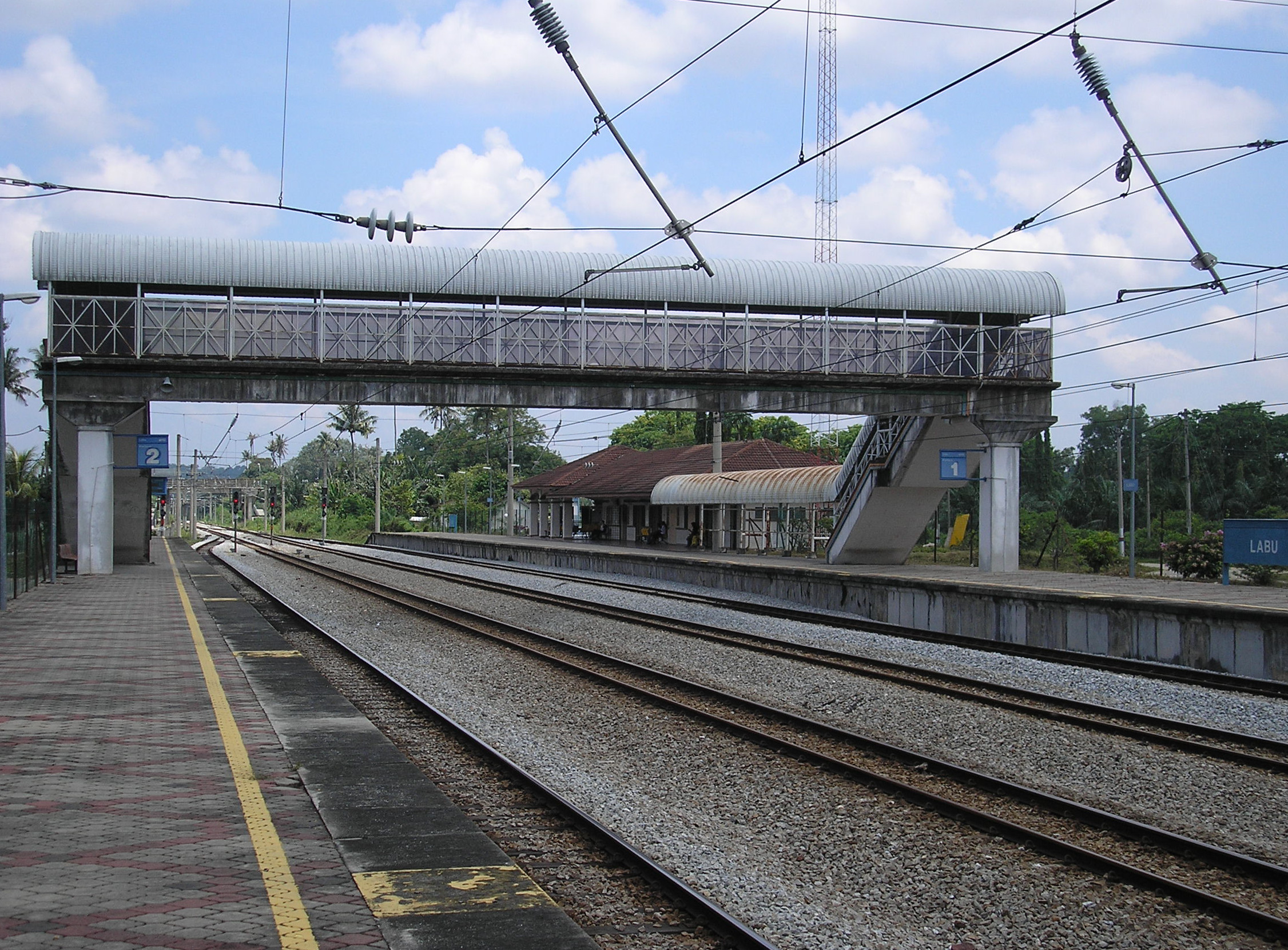 A platform view of the Labu station (Rawang-Seremban Line) in Labu, Negeri Sembilan, Malaysia.